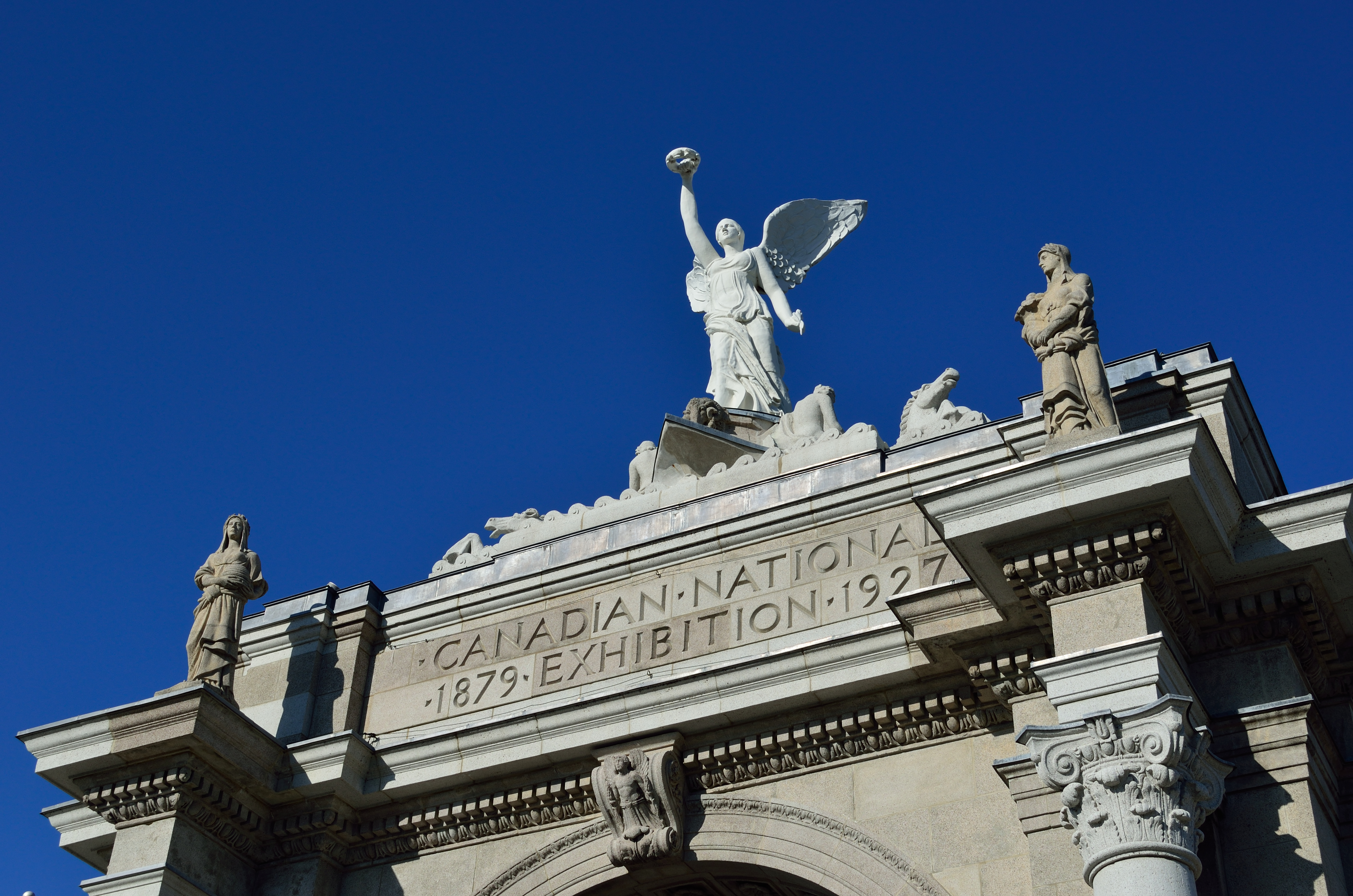 Princes' Gates - Toronto Exhibition Place